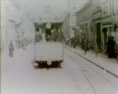 Screenshot from the 1905 film Med Sporvogn gennem Aarhus' Gader (Going by Streetcar through Aarhus) directed by Peter Elfelt. The tram meets another tram on Søndergade.